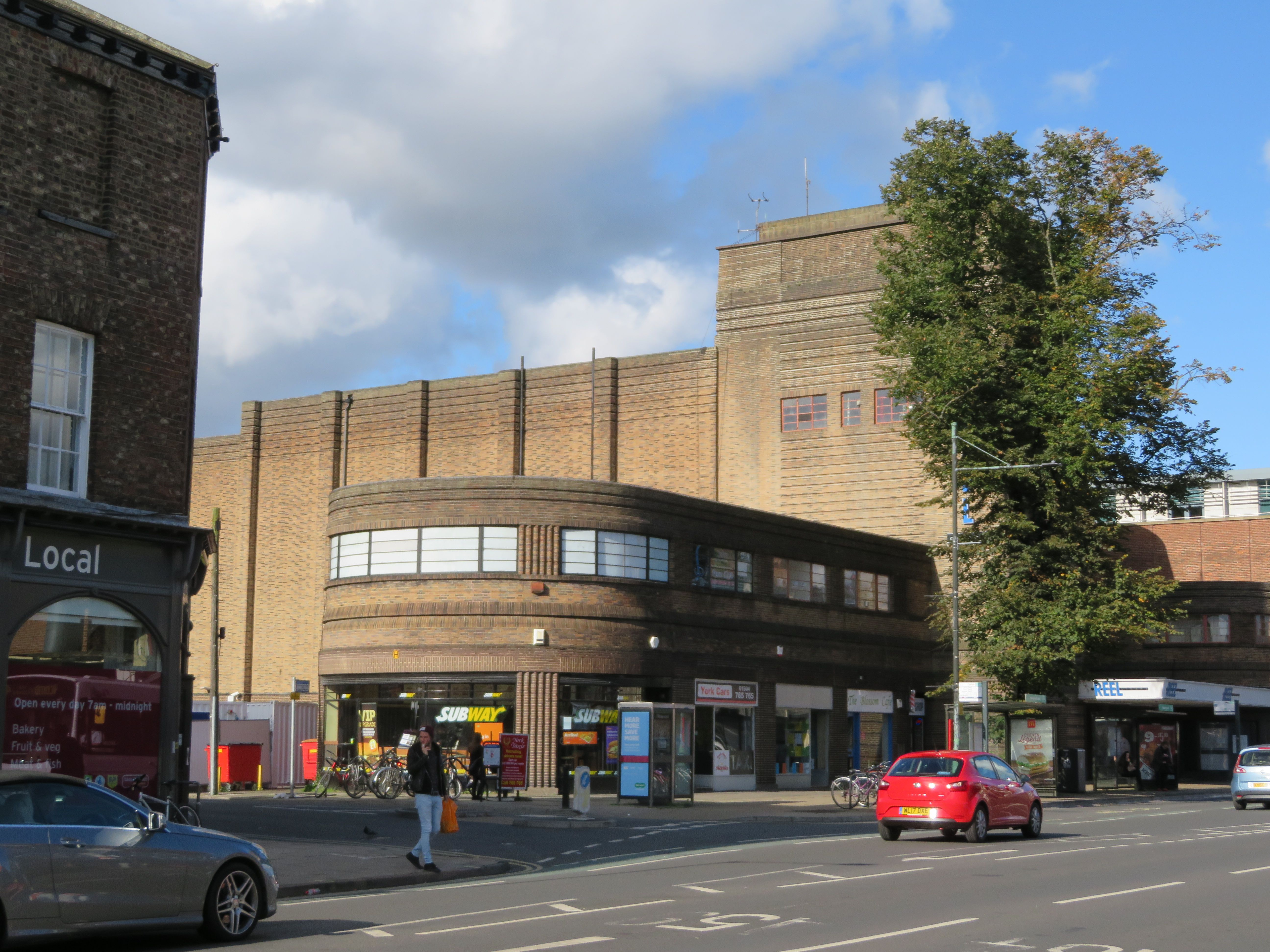 Everyman York Wikidata has entry Q26550610 with data related to this item.